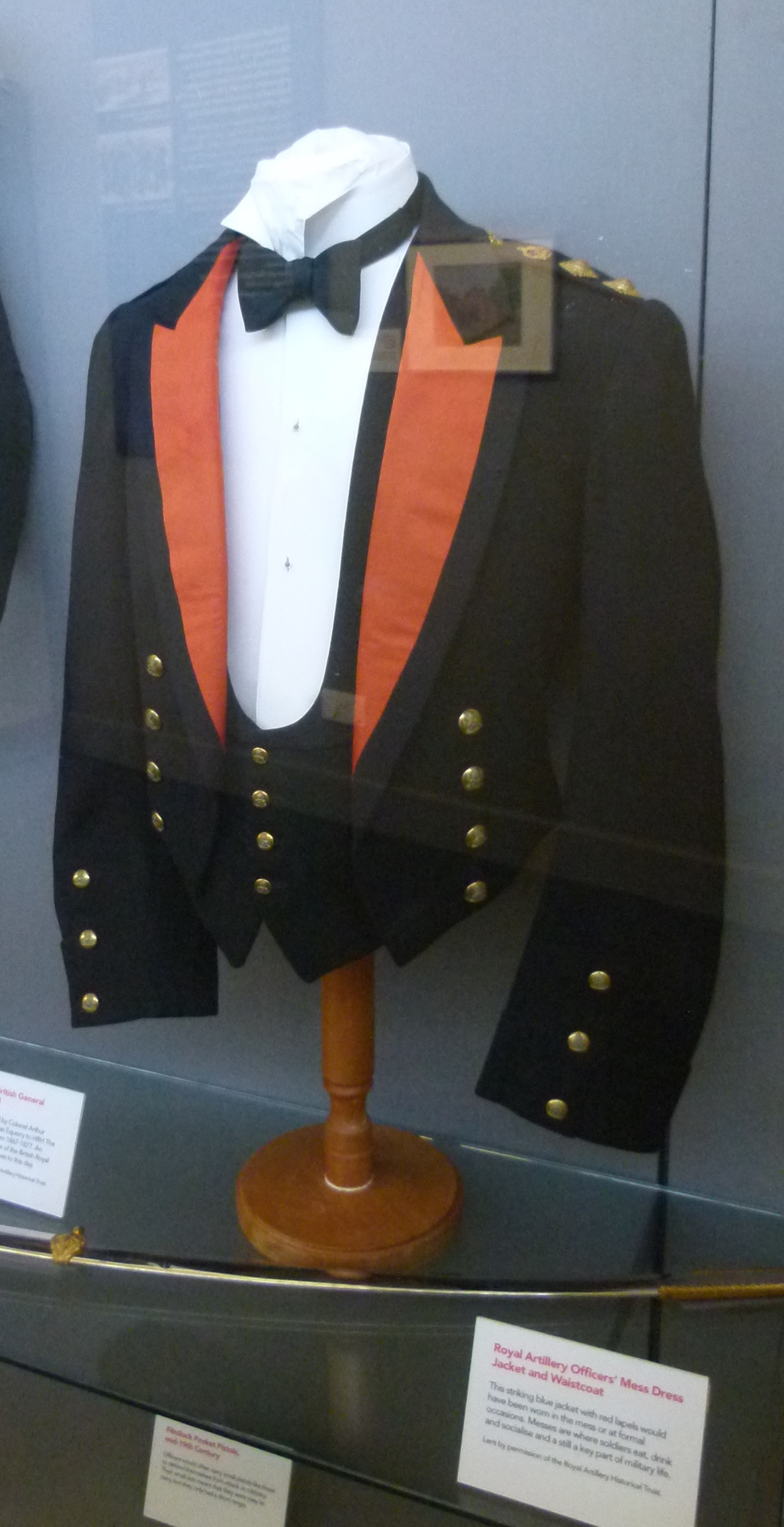 Dress jacket and waistcoat worn by officers in the Royal Artillery Officers' Mess and at formal occasions. Collection of the Royal Artillery Historical Trust. On loan to a semi-permanent exhibition dedicated to the Royal Artillery and Royal Military Academy in Greenwich Heritage Centre, Woolwich, south east London, UK.